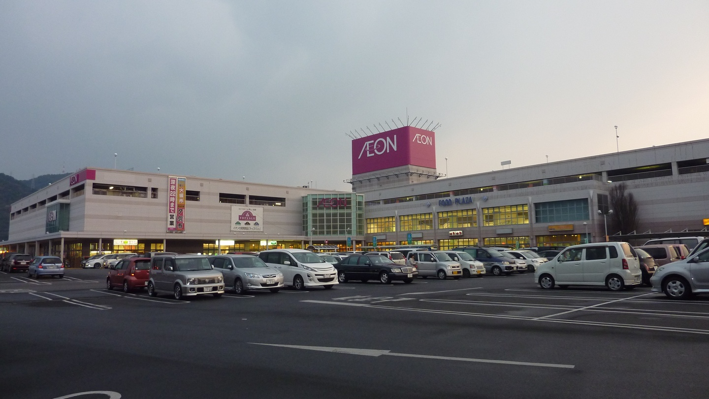 Aeon Nobeoka Shopping Center in 2011 (Nobeoka City, Miyazaki, Japan)